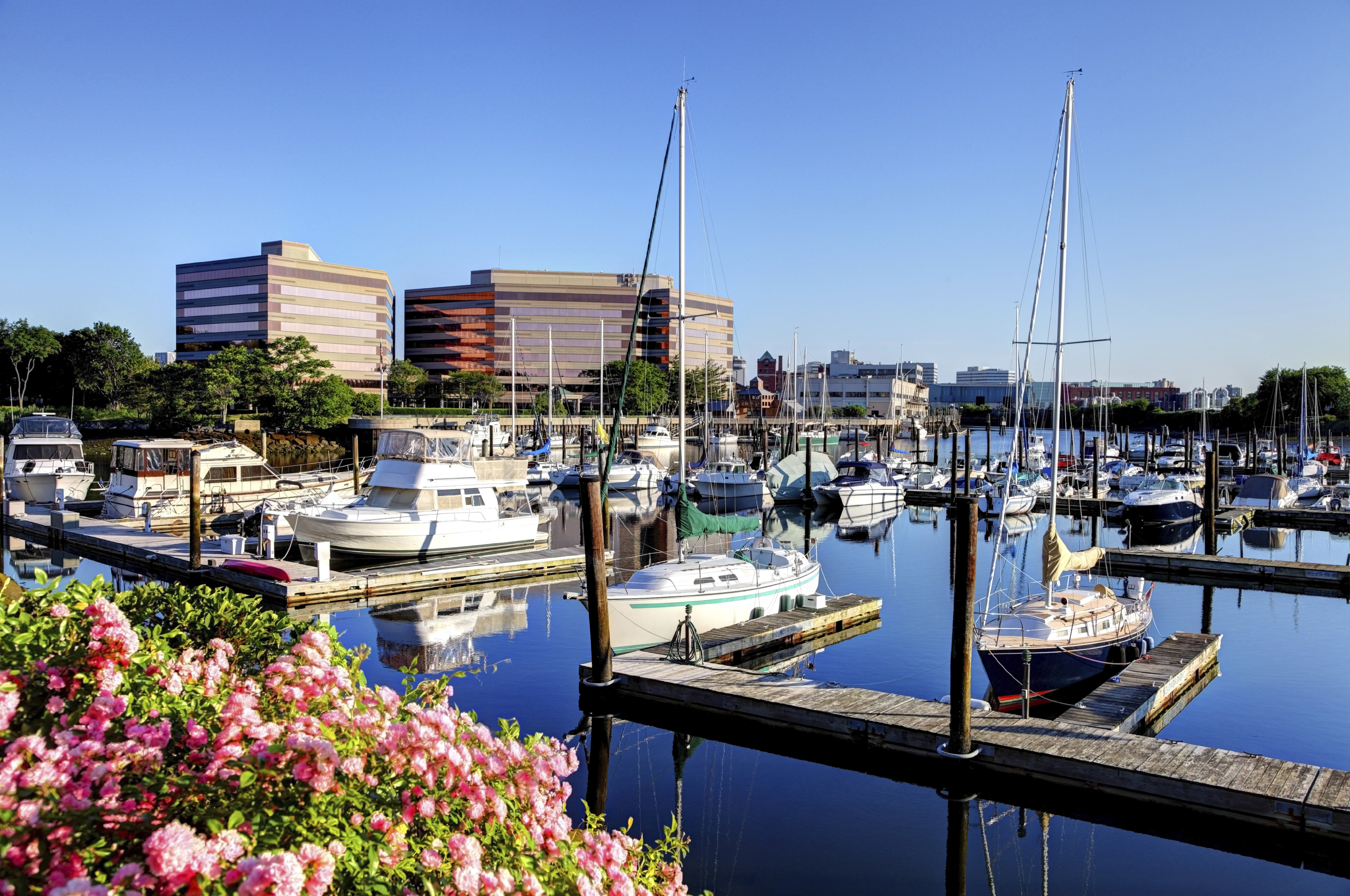 Springtime view of the Stamford Harbor Marina in front of the 333 Ludlow St commercial office building complex.